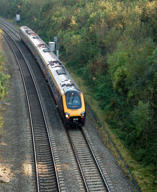 Up (eastbound) 'Voyager' train in Harbury railway cutting